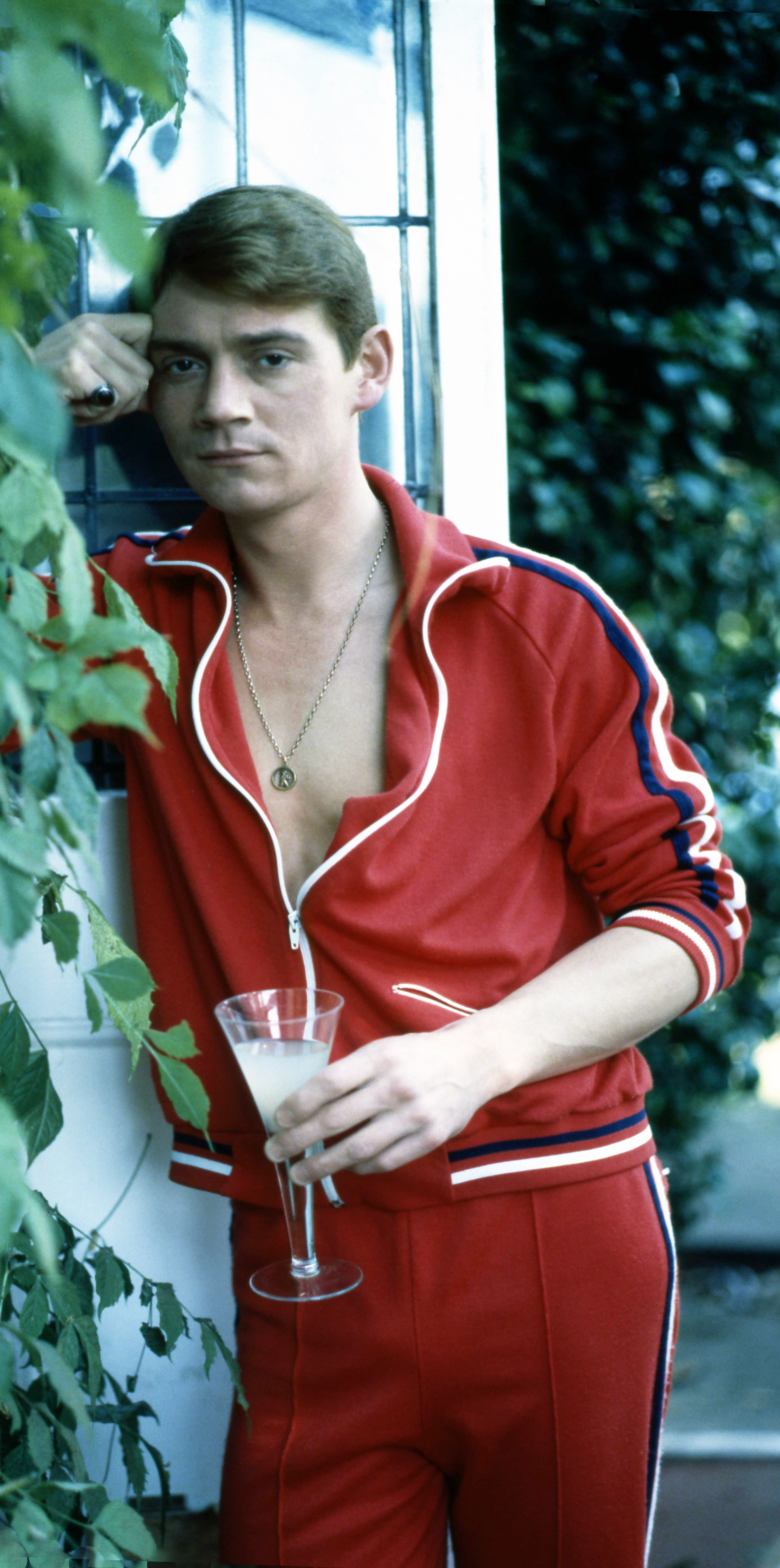 Anthony Andrews in his garden in Wimbledon, Surrey, England